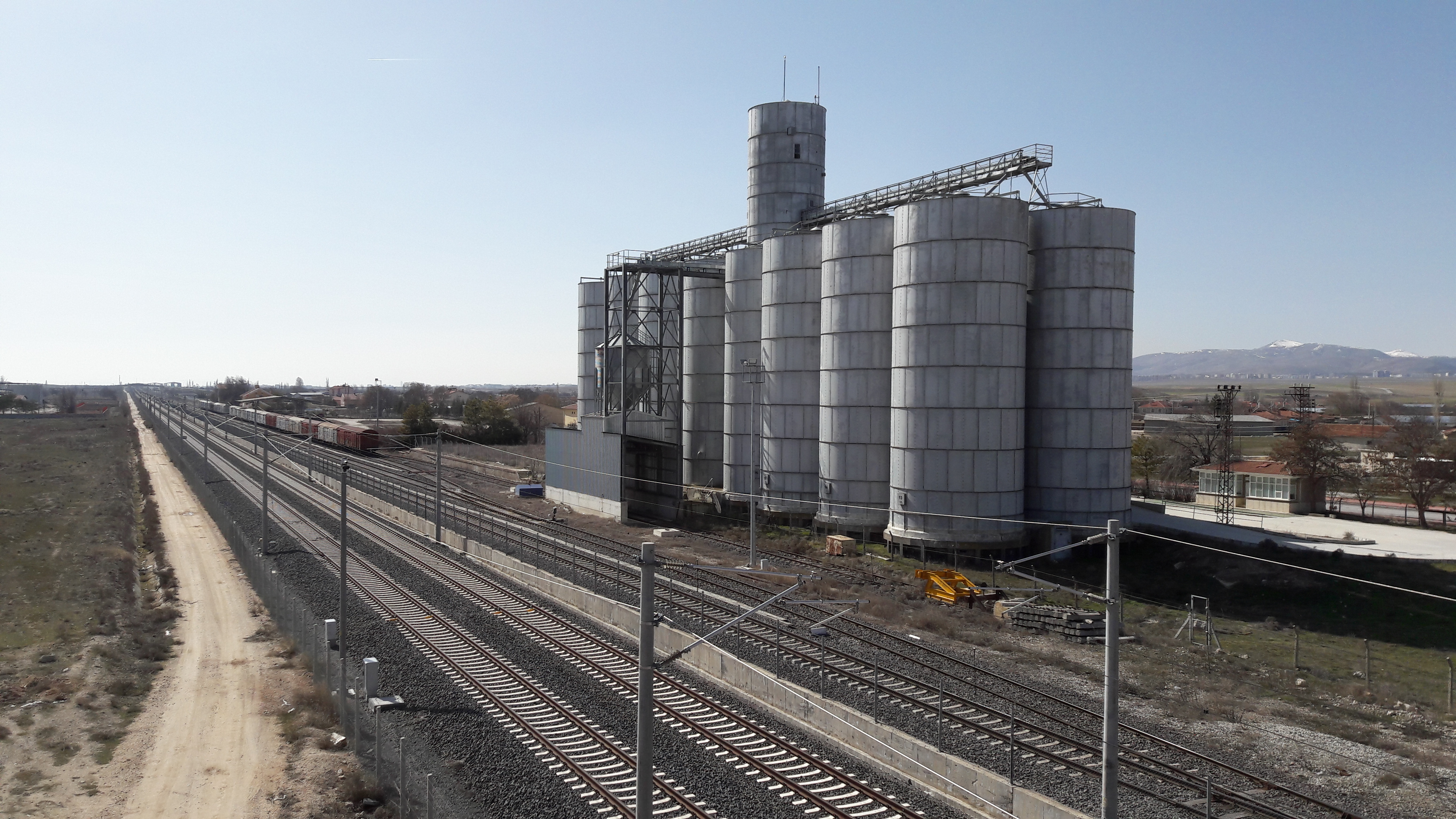 Grain elevators next to Pinarbasi station, with the station itself visible in the background. The Polatli-Konya high-speed railway is seen in the front, while the Eskisehir-Konya railway is seen in the back.